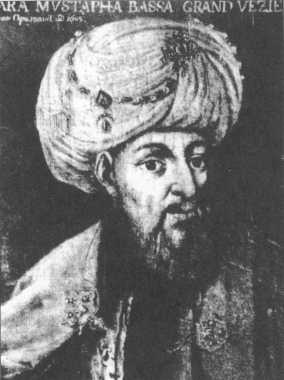 Kara Mustafa, turkish commander from battle of Wien (1683)